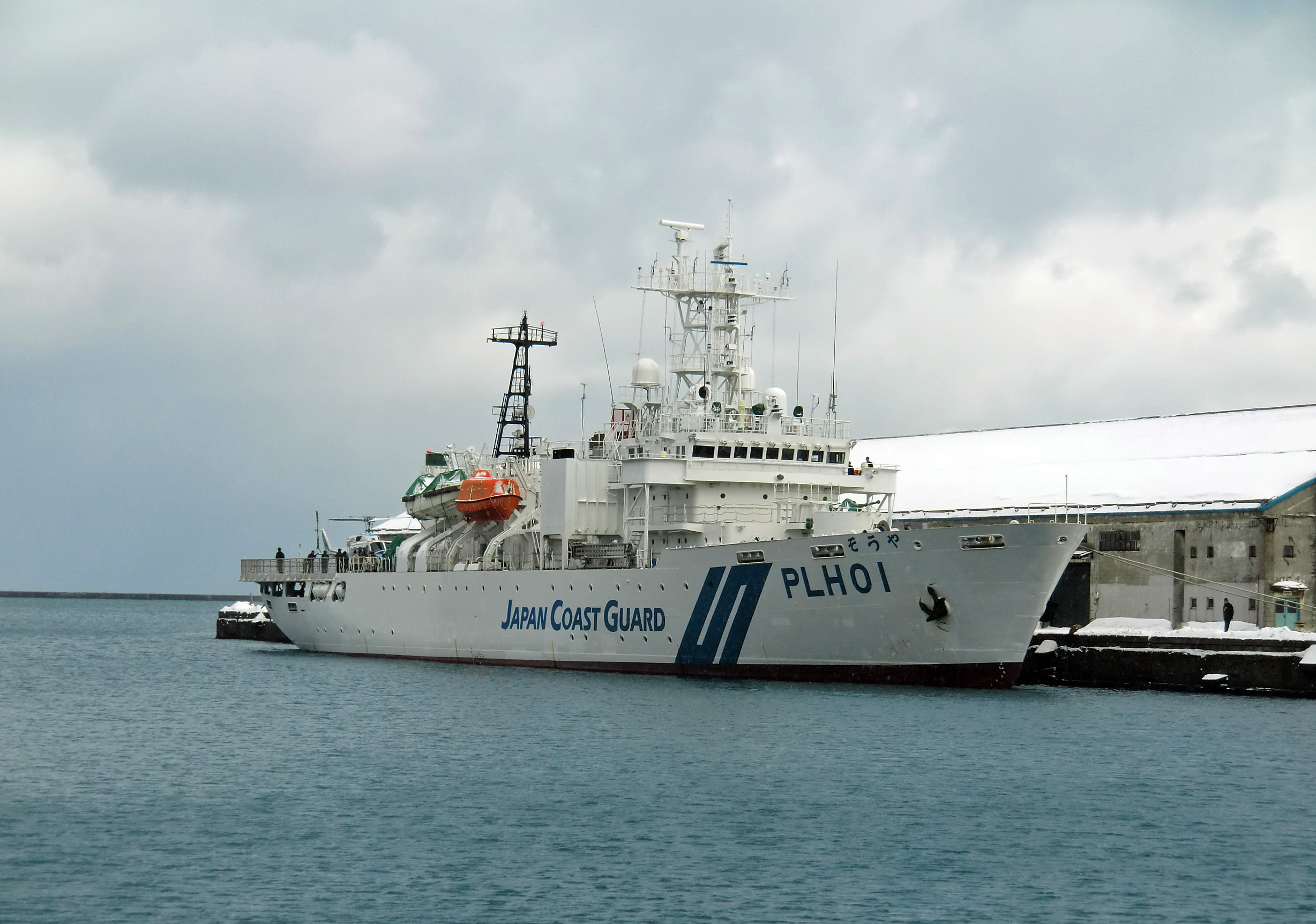 Japan Coast Guard PLH 01 SOYA